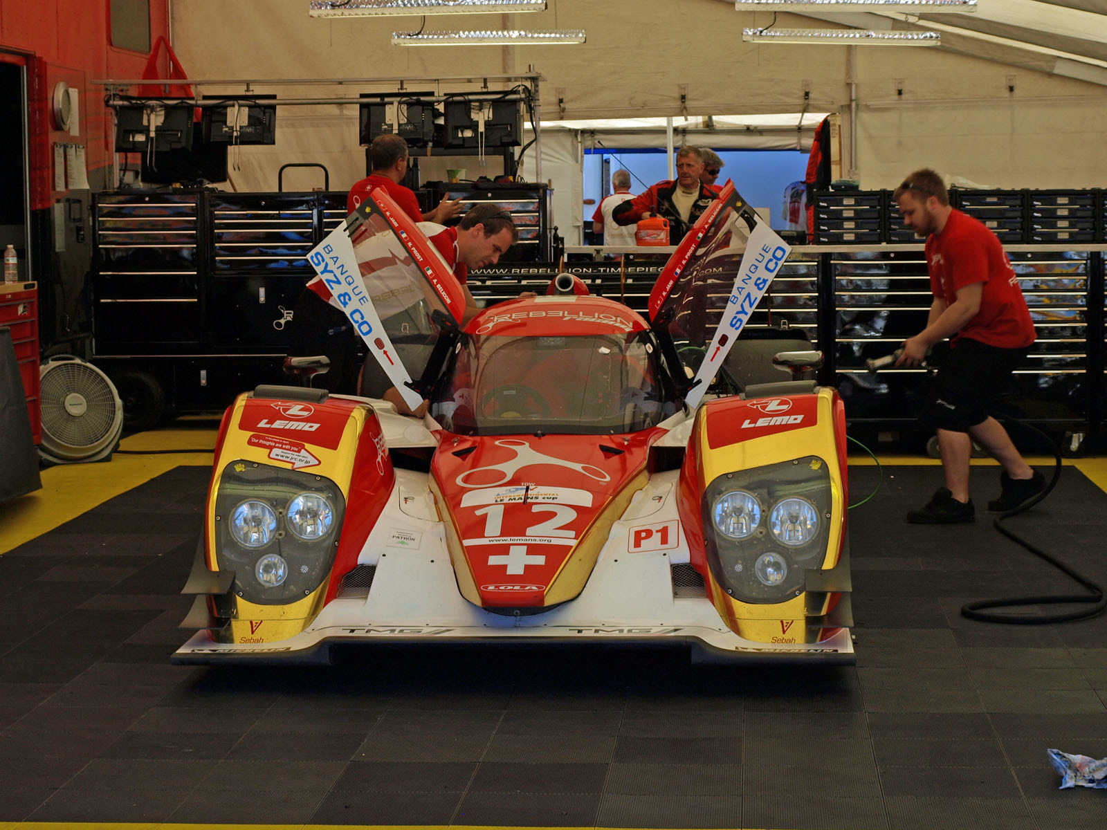 The Rebellion Racing Lola B10/60-Toyota at the 2011 Petit Le Mans at Road Atlanta.